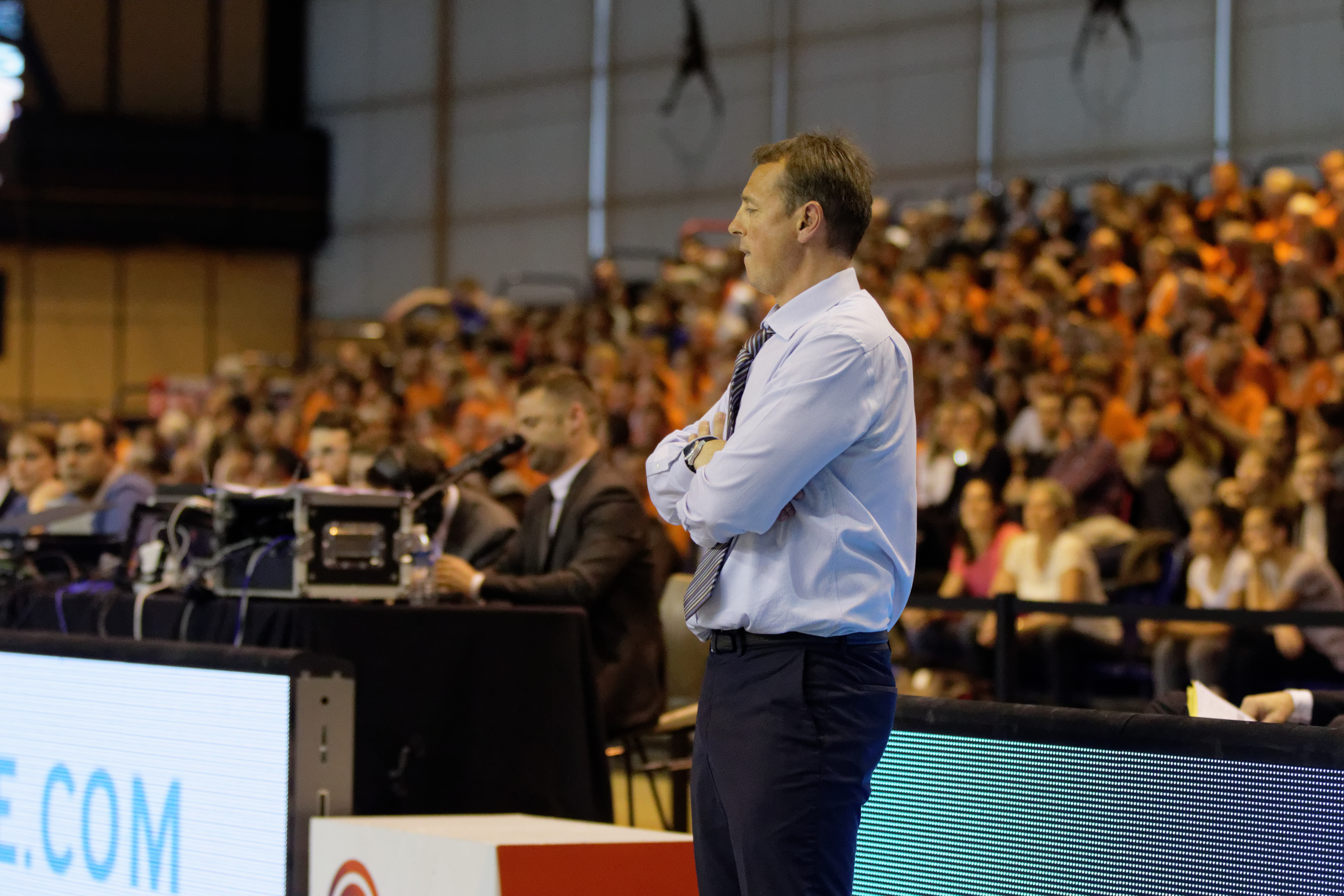 Final of the French Basketball Cup, Lattes-Montpellier vs Bourges, 2nd May 2015.